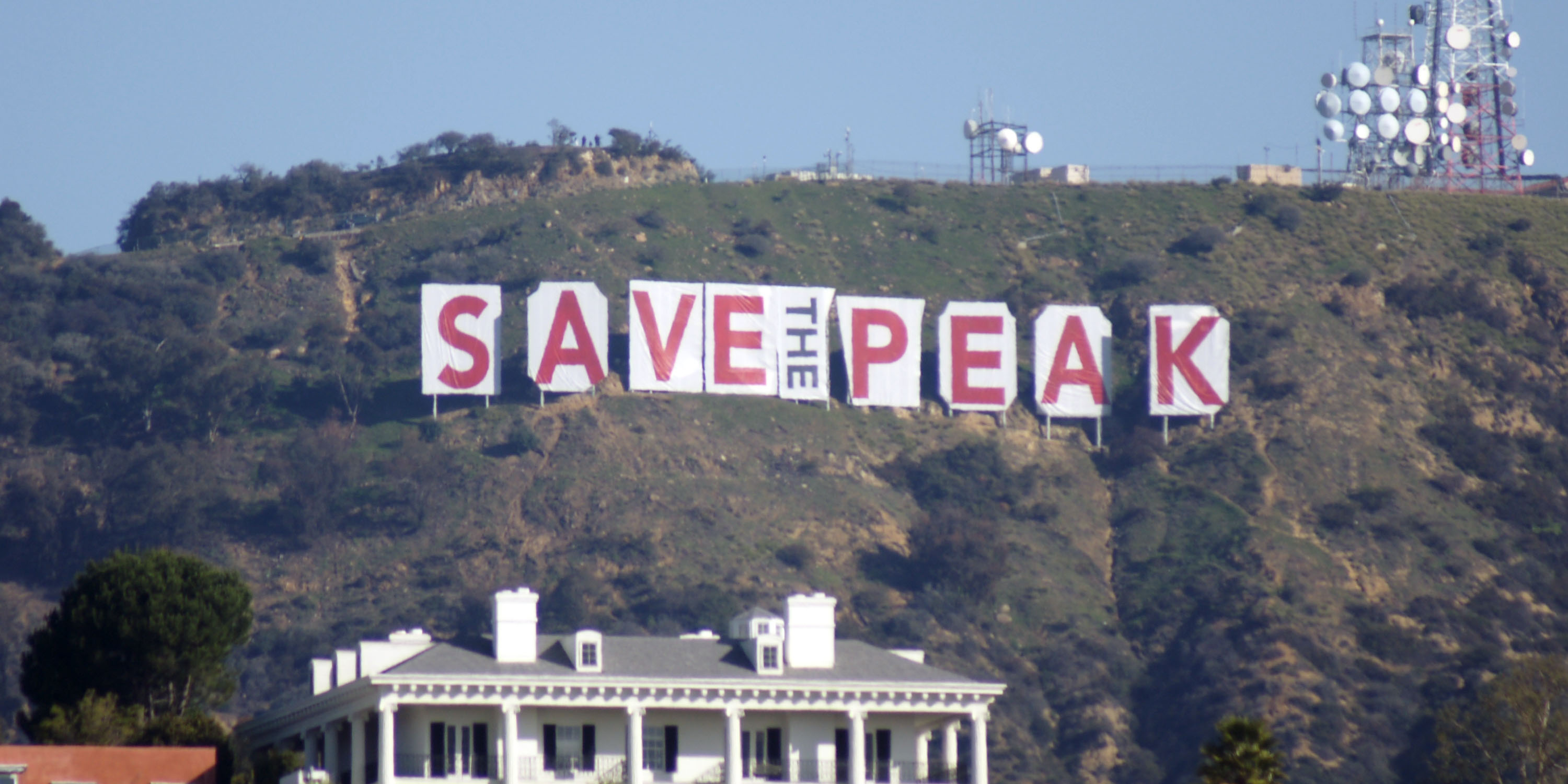 The Hollywood Sign circa February 2010, displaying a promotional banner for The Trust for Public Land.